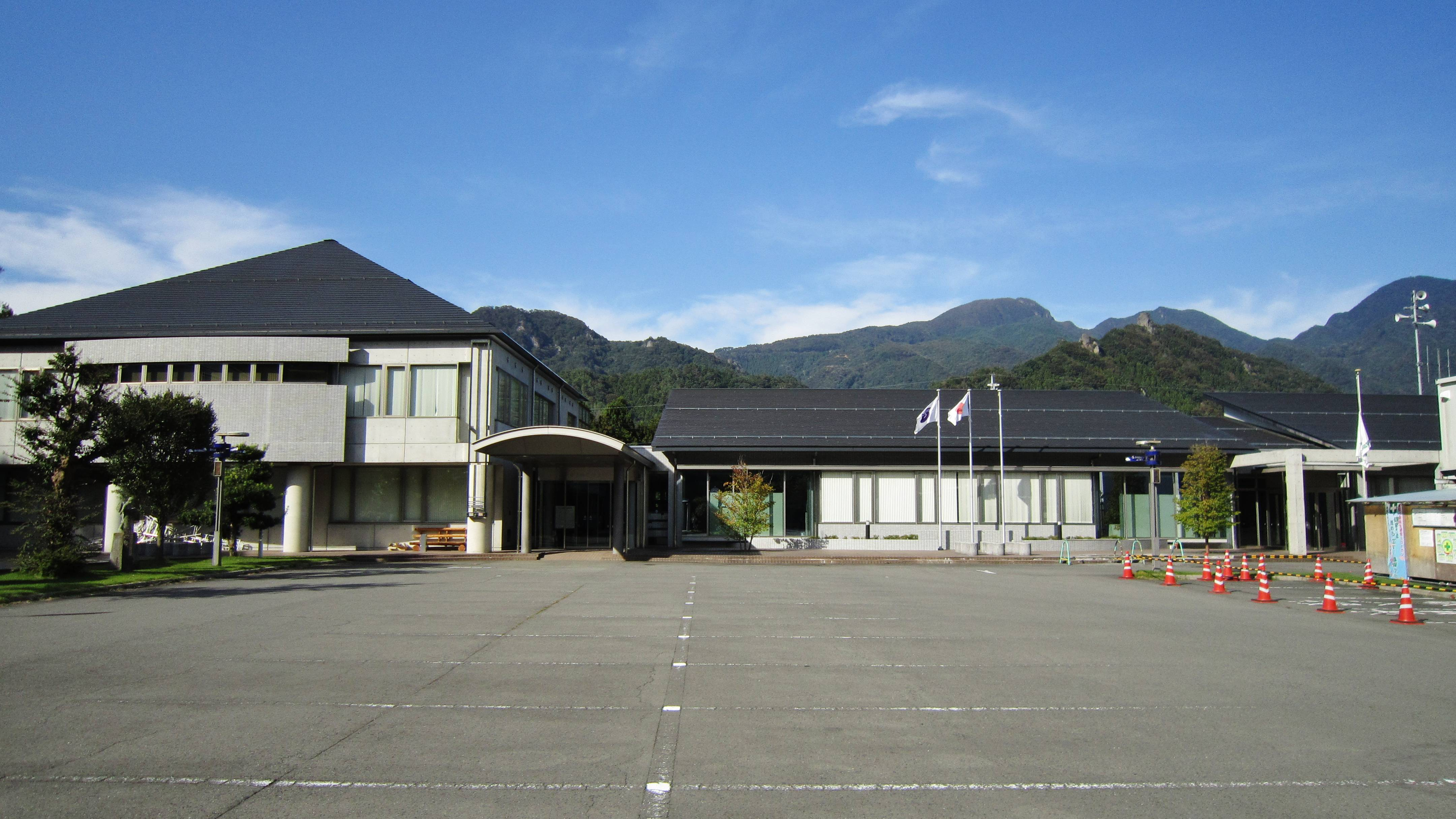 Higashiagatsuma town Azuma branch office.